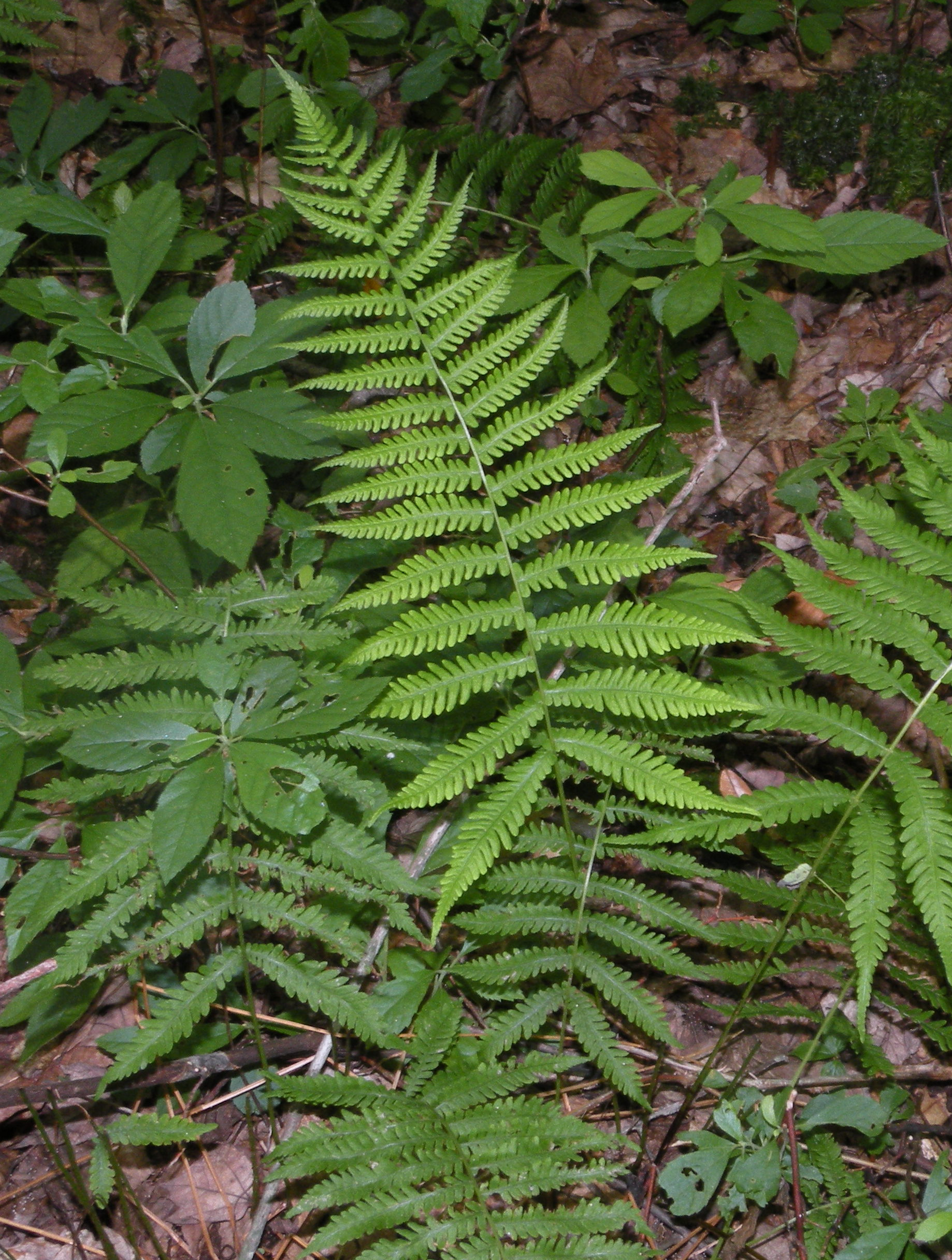 Thelypteris simulata (Massachusetts Fern), Hopkinton, RI